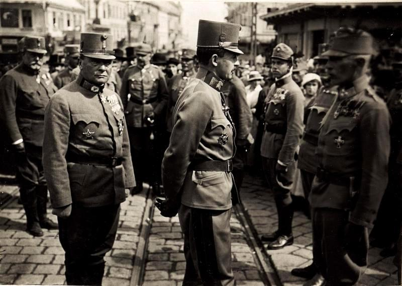 Kaiser Karl I. besucht Czernowitz am 6. August